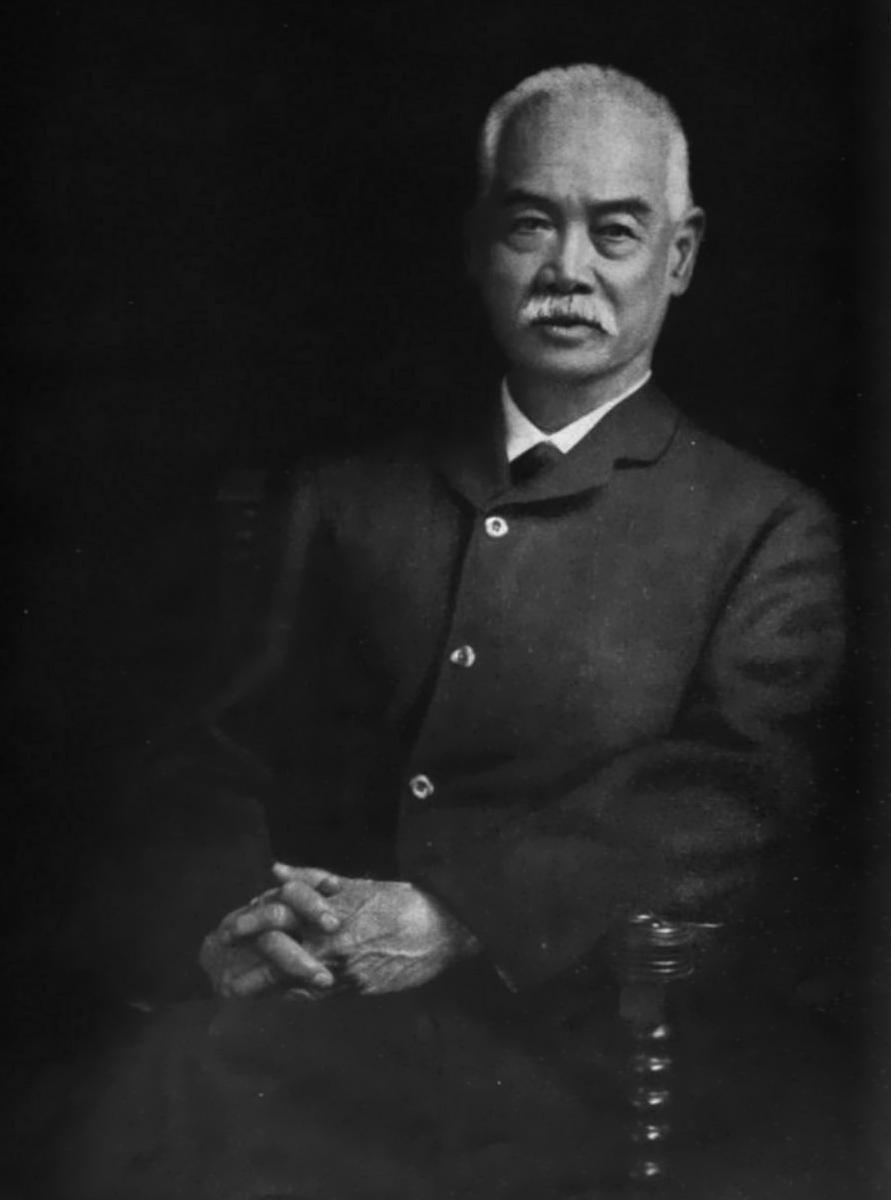 Portrait of Yung Wing circa 1910. Caption:"Mr. Yung Wing, whose American education helped to fit him for a career of great usefulness at home, and whose reminiscences, "My Life in China and America" have just been published. Courtesy of Messrs. Henry Holt & Co."